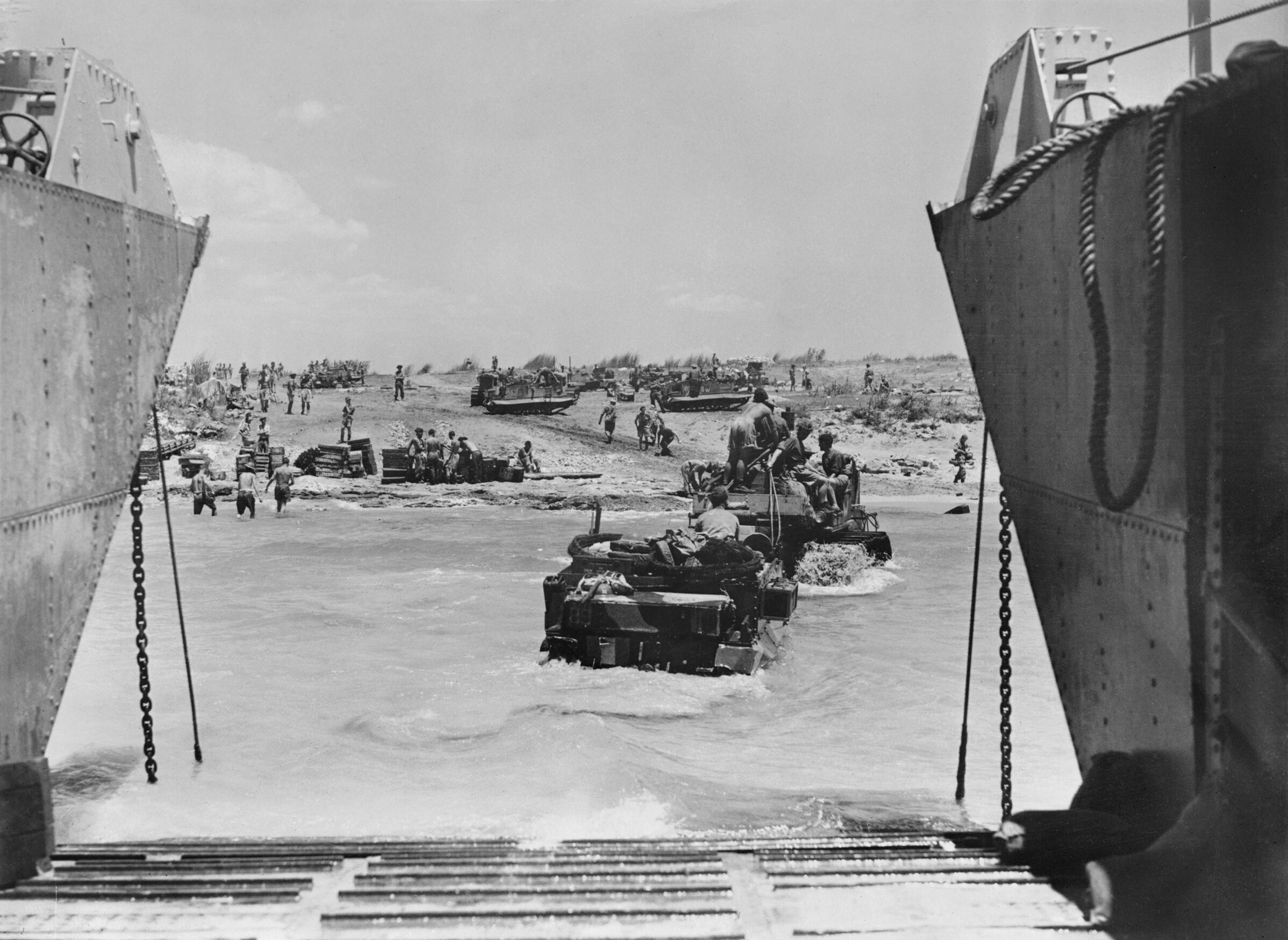 A Universal Carrier is towed to the beach by a bulldozer during the Allied invasion of Sicily, 10 July 1943. Glimpse of the invasion coast as an armoured vehicle was being towed ashore from landing craft during the landings in Sicily at dawn of the opening day of the invasion.